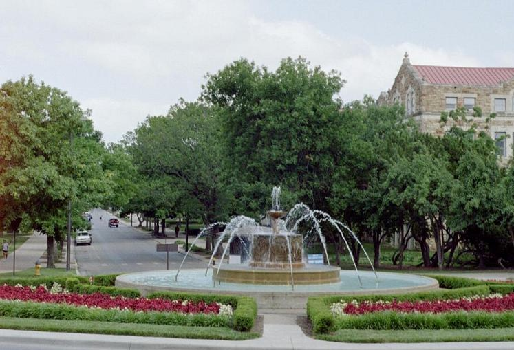 The west entrance of the main Campus of the University of Kansas with the Chi Omega Fountain - view from west on Jayhawk Boulevard